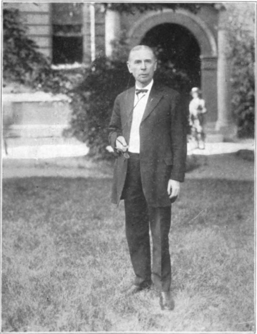 Dr. F. Pieper at the Fort Wayne Convention in 1923 , Google-digitized and from